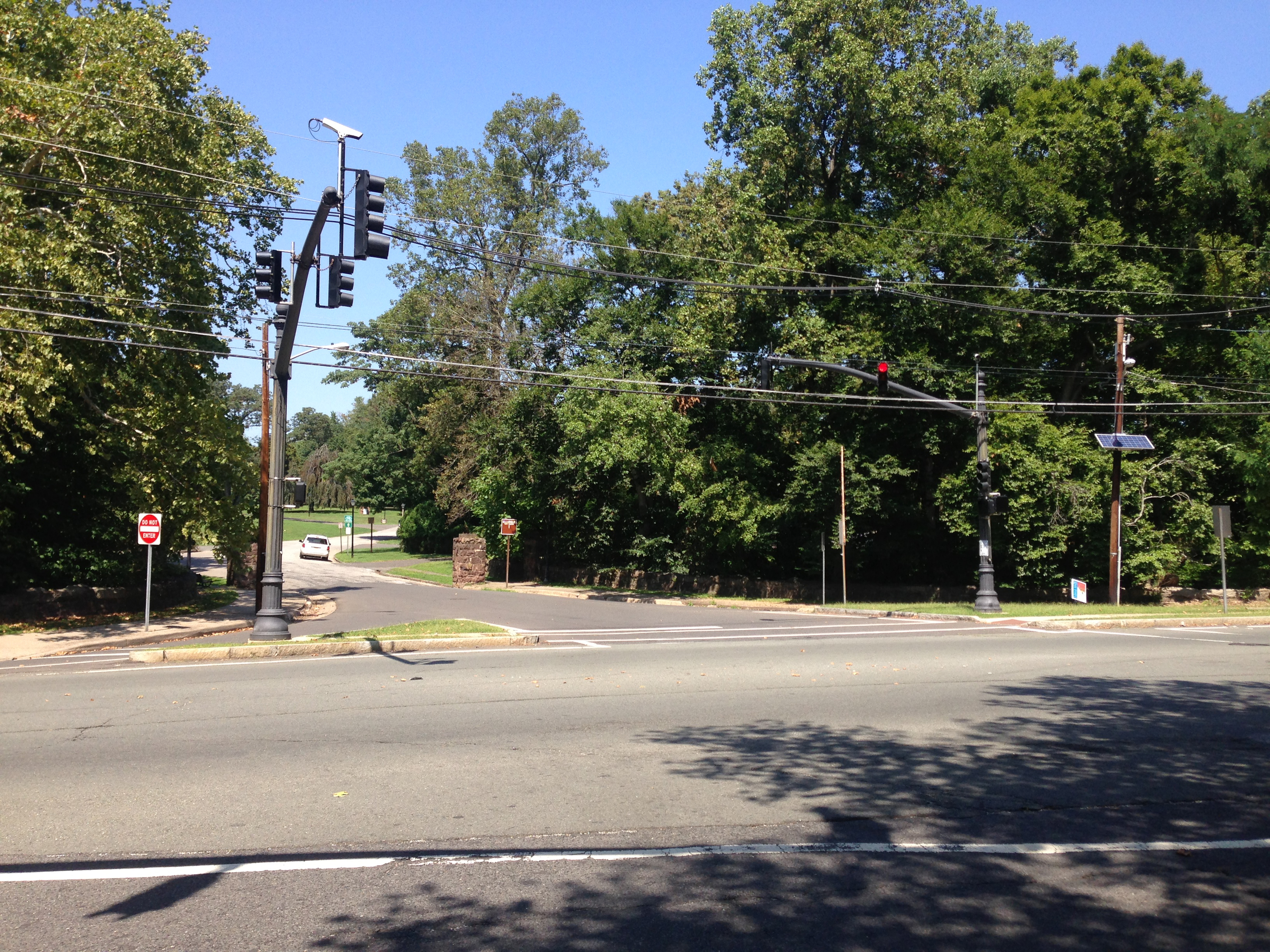 Traffic signal at the intersection of Parkside Avenue (Mercer County Route 636), Bellevue Avenue and the entrance to Cadwalder Park in Trenton, New Jersey